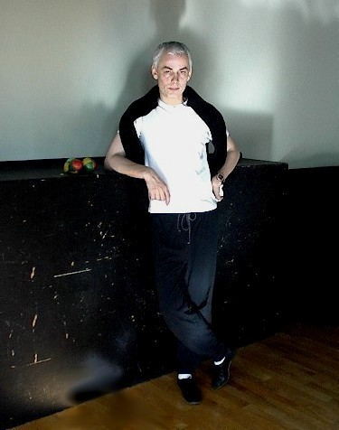 Taken of René Bazinet, at Studio Bizz, on Oct. 31, 2002, in Montréal, Canada.